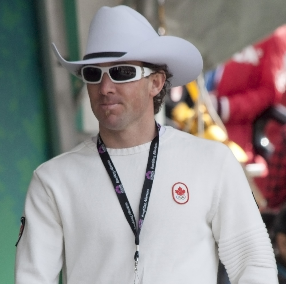 Stefan Kuhn at a salute to Canadian Olympians and Paralympians with a connection to Alberta, that was put on at the Olympic Plaza in Calgary, Alberta, Canada. Image has been scaled down in size and cropped.